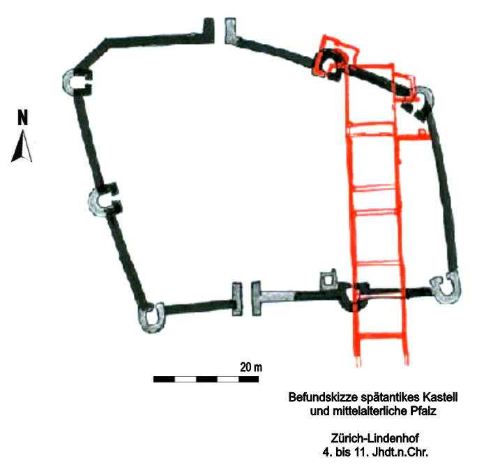 Findings sketch late Roman fort and Ottonian Palatinate in Zurich-Lindenhof, CH (4. to 11. century)